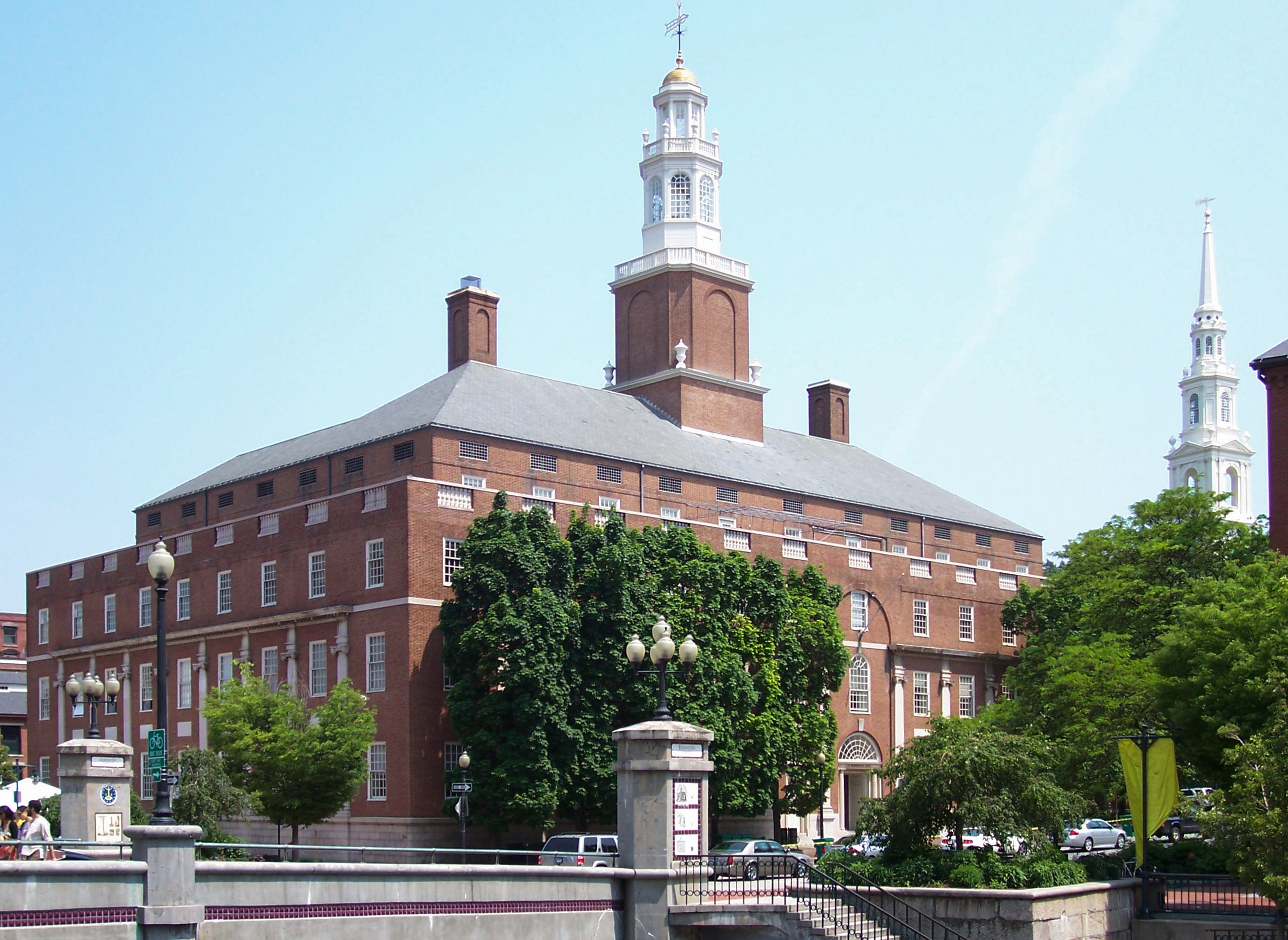 Rhode Island School of Design building that houses the administration, admissions, etc.